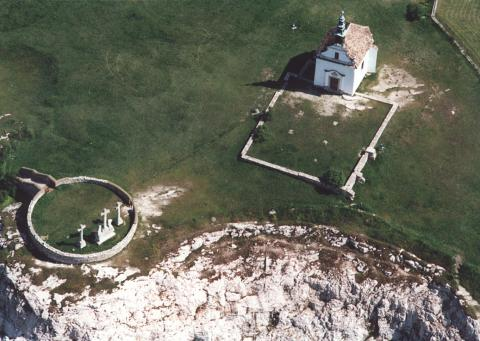 Tata, Hungary, aerial photography